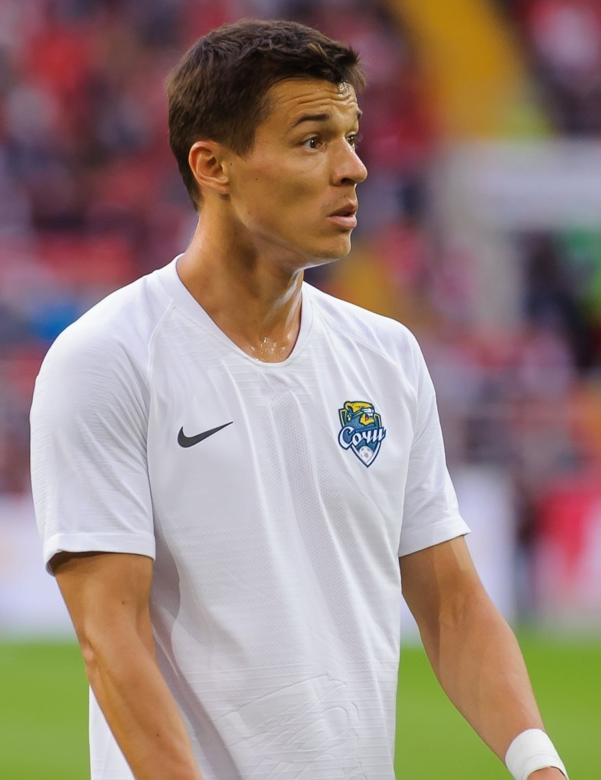 Dmitry Poloz with PFC Sochi in a game against FC Spartak Moscow.